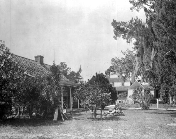 View of the kitchen (left) and main house used by Zephaniah Kingsley and Anna Madgigine Jai Kingsley